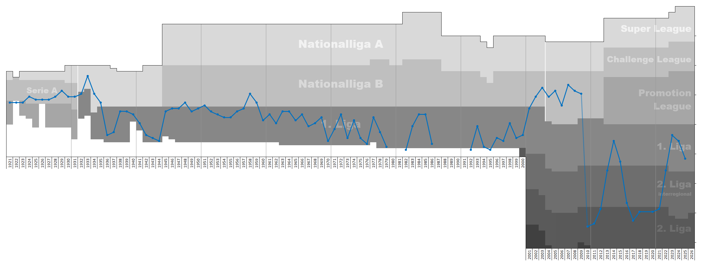 Chart of end-season table positions for FC Concordia Basel in the Swiss football league system. Data source: RSSSF, , al-la.ch